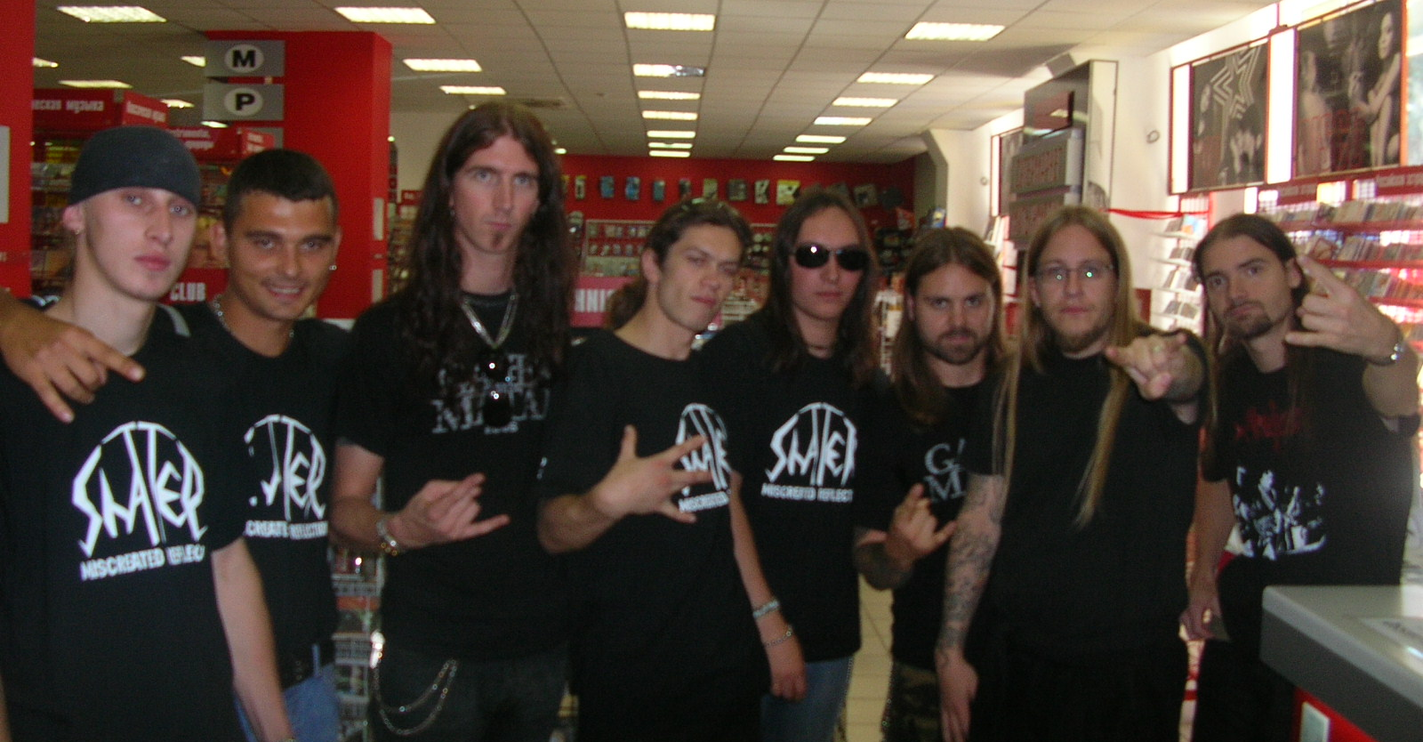 Россия